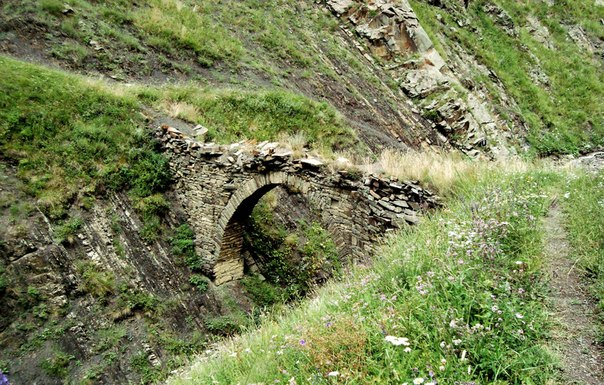 A bridge near to a left village of Kakhul in Dagestan, Russia.